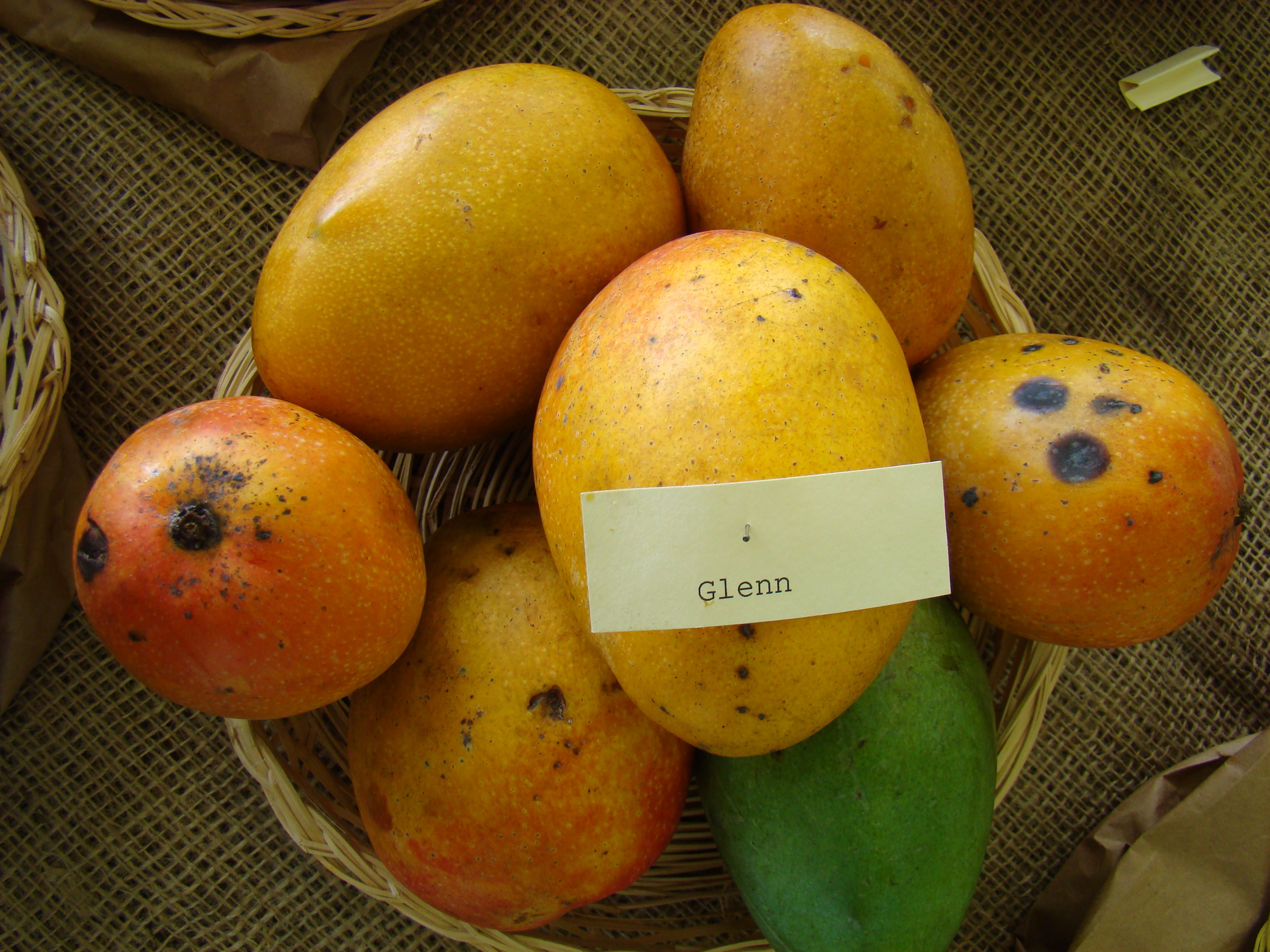 This is a photo of the display of Glenn mango at the Redland Summer Fruit Festival, Fruit & Spice Park, Homestead, Florida.